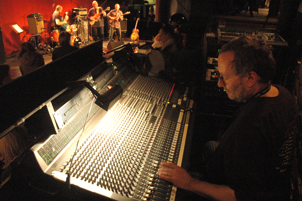 Sound engineer Pawel Lucki at the controls in jazz club Fasching in Stockholm, Sweden.